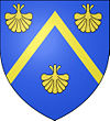 Coat of Arms Jean II des Barres, France, Champagne